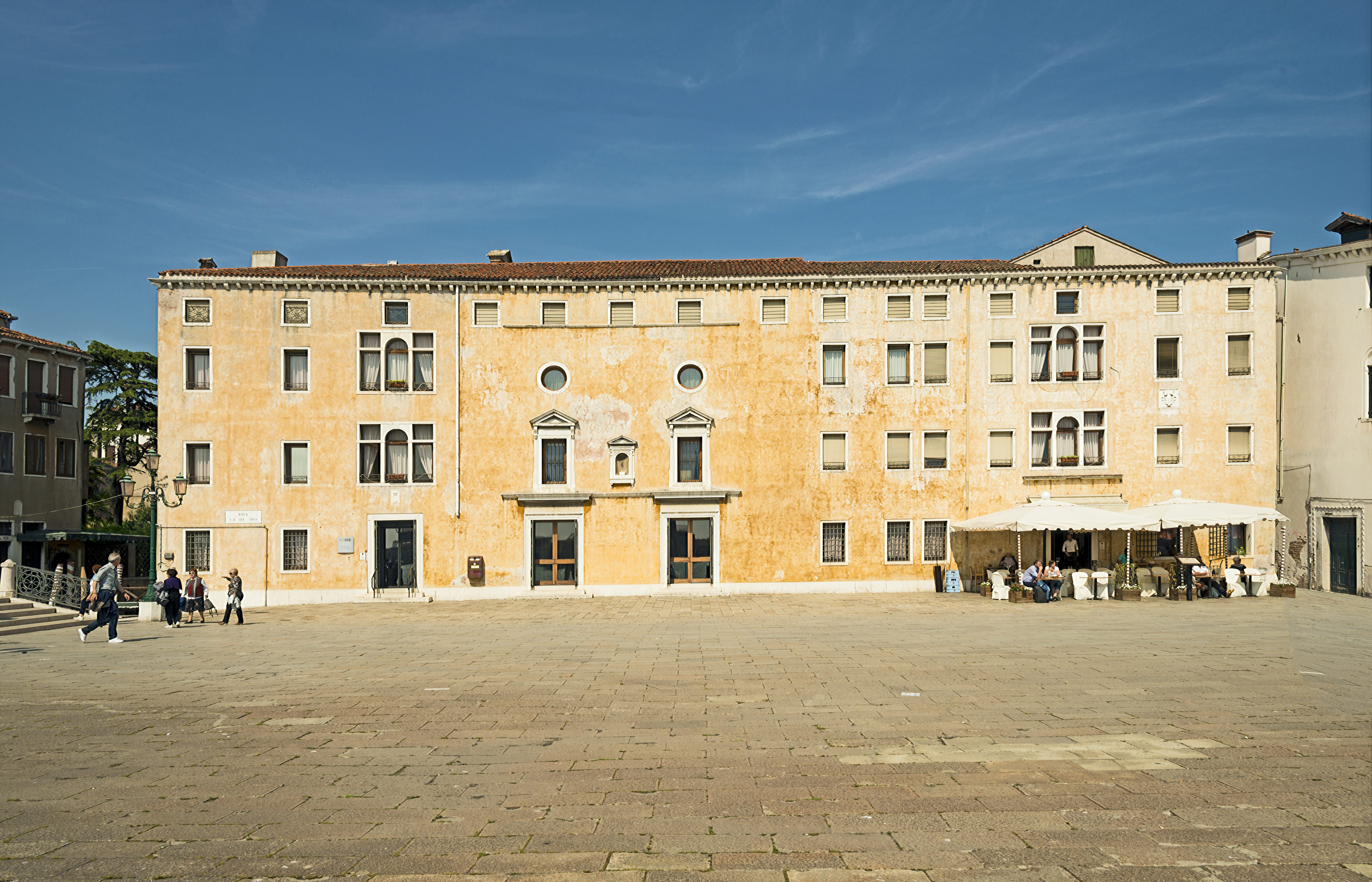 Chapel of Santa Maria della Ca' di Dio in Venice. Facade on Riva Ca’ di Dio.